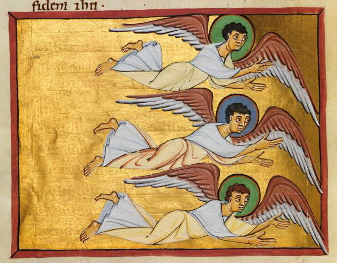 Folio 35v of the Bamberg Apocalypse